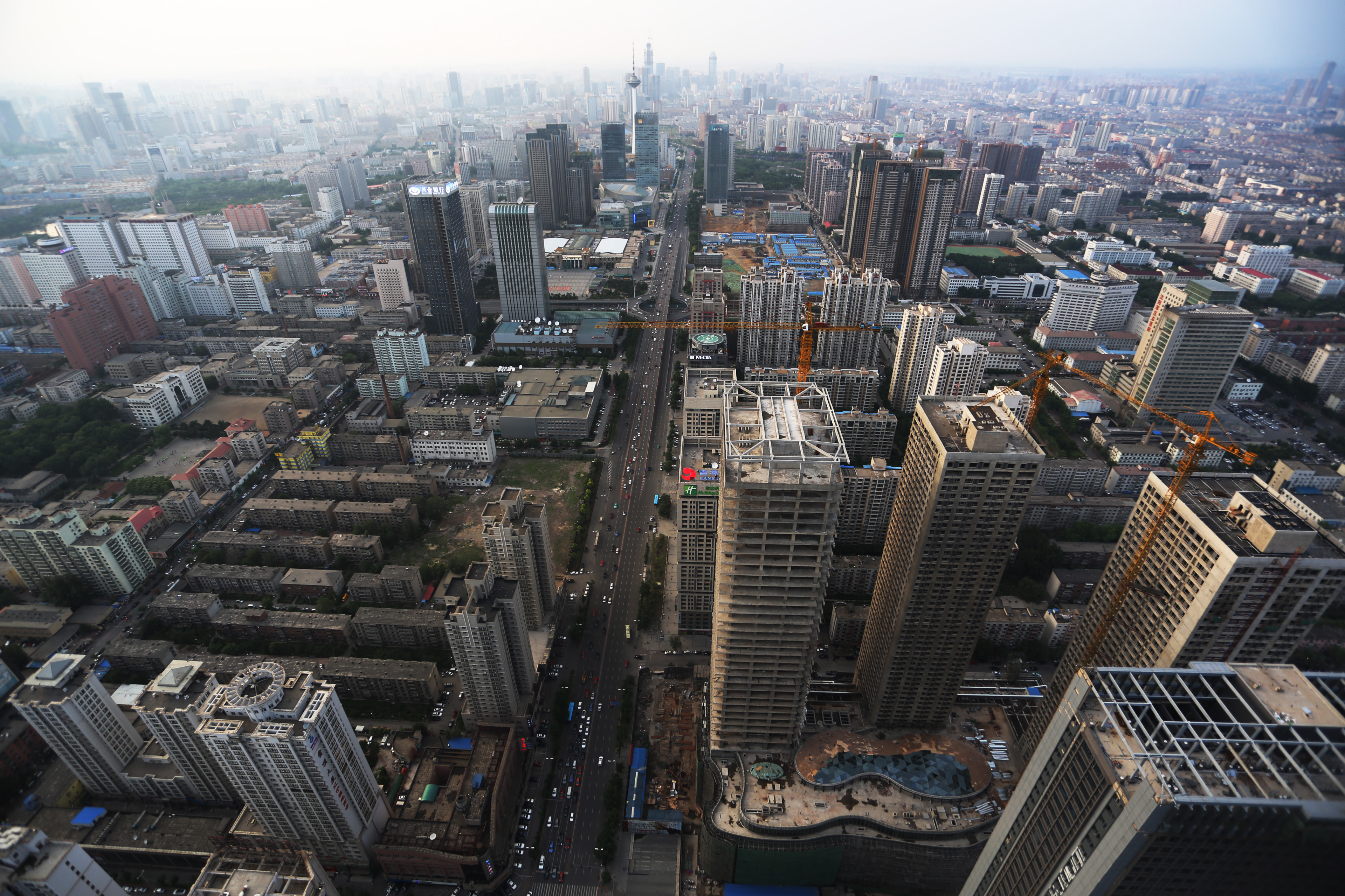 Qingnian Street is the central line of the city.